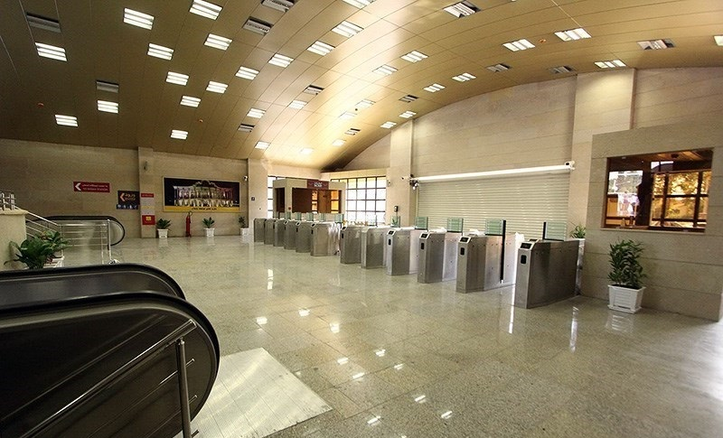 Shiraz metro